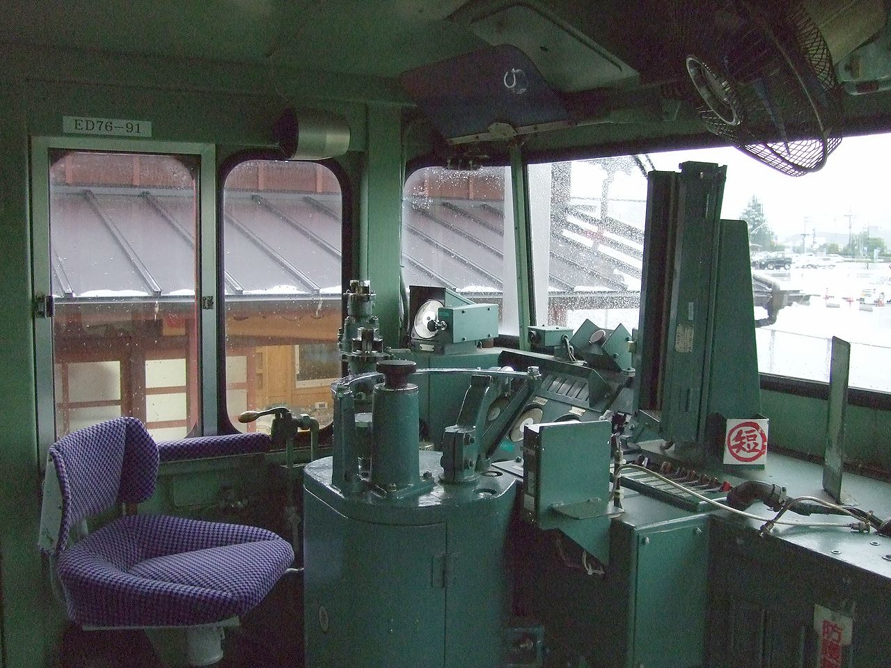 Cockpit of JR Kyushu EL ED76 91